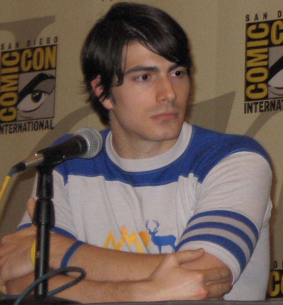 Actor Brandon Routh at San Diego Comic-Con in 2006